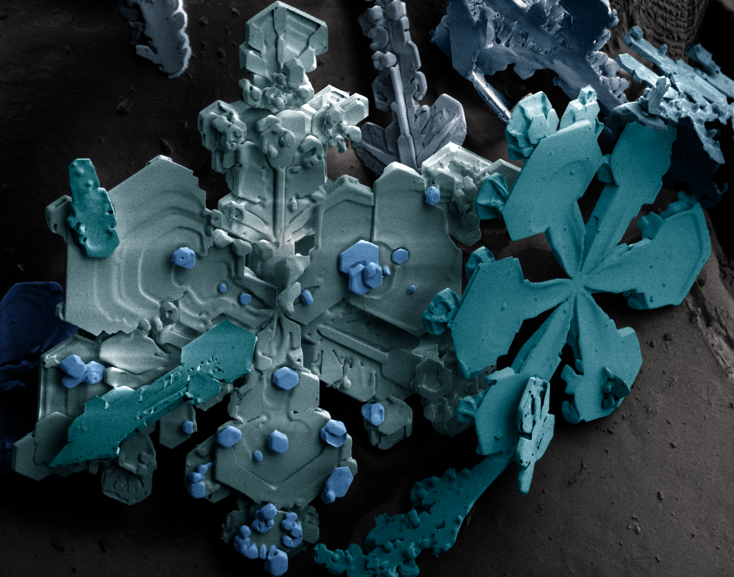 Snow flakes highly magnified by a low-temperature scanning electron microscope (SEM). The colours are called "pseudo colours", they are computer generated and are a standard technique used with SEM images.